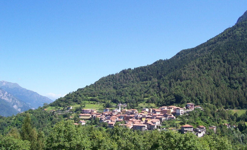 Astrio, Breno, Val Camonica